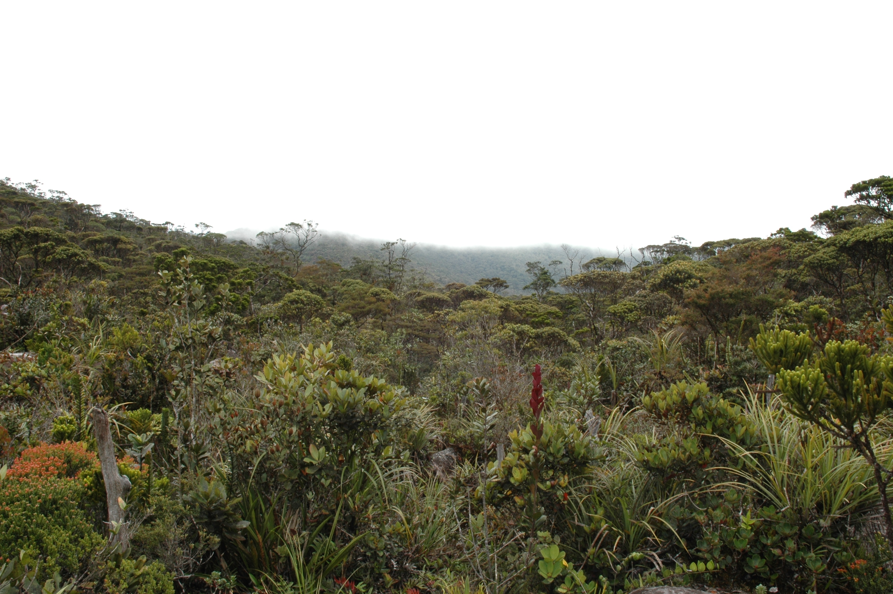 Gunung Murud Near Summit